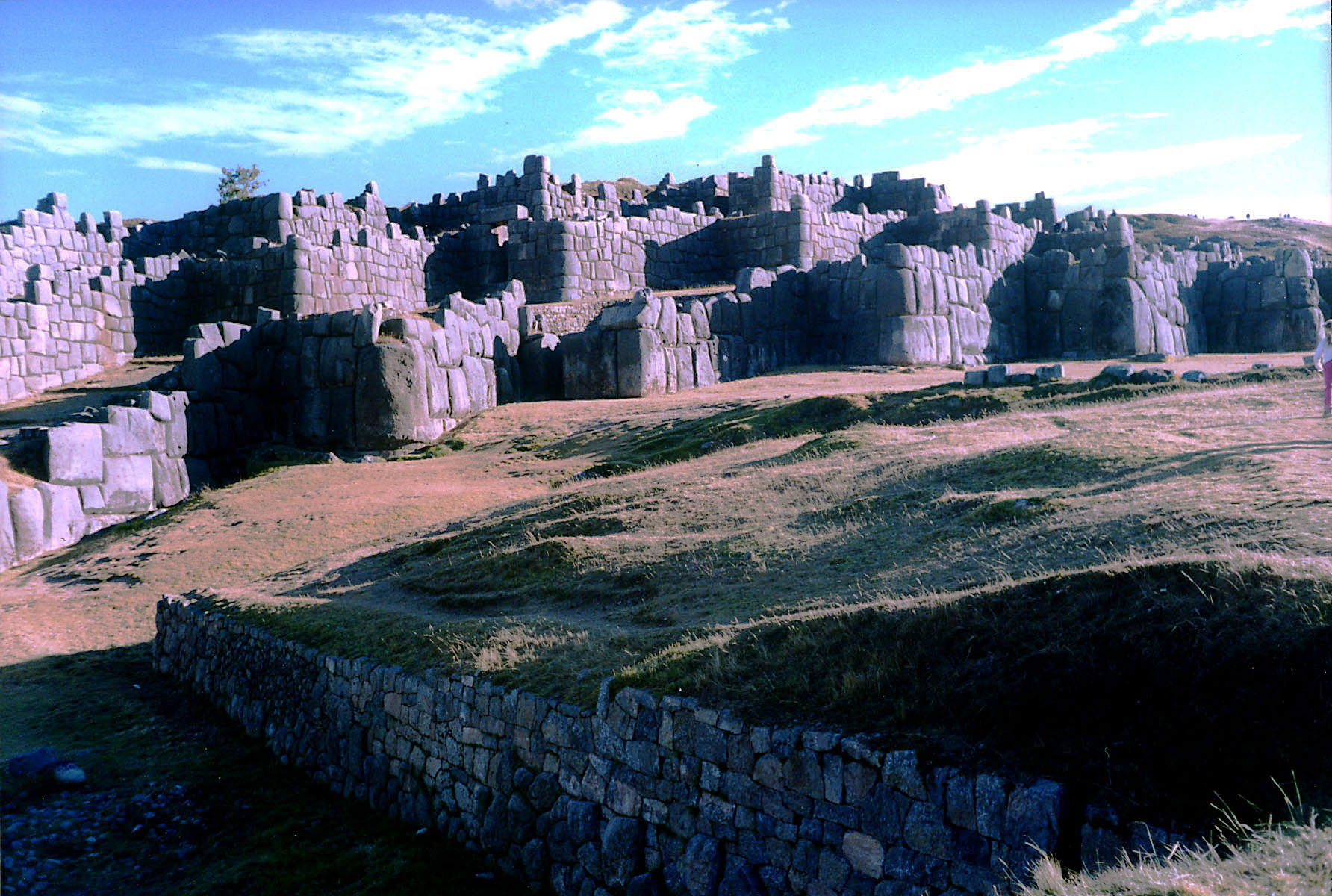 Sacsahuamán (Sacsayhuamán), Cusco, Peru. The photo was taken in June 2002 by Håkan Svensson (Xauxa).